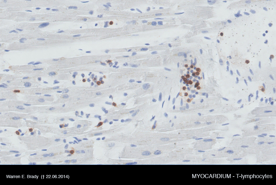 T-lymphocytes in the heart muscle sample of deceased Warren E. Brady